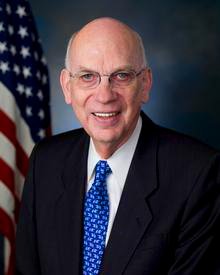 Official photo of senator Robert Foster Bennett.